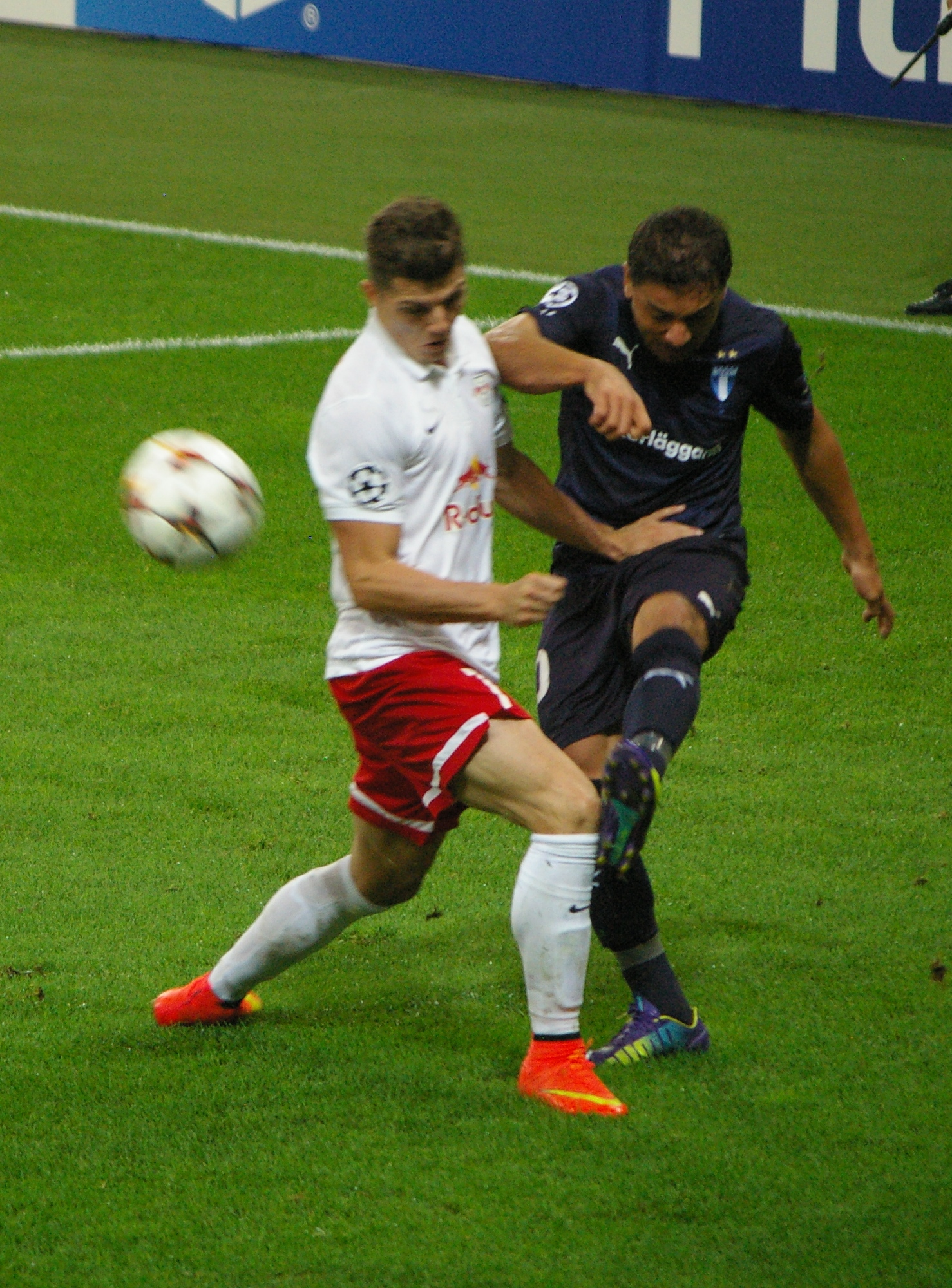 UEFA Championsleague qualifier 2014